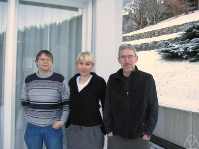 Henk Bruin (left), Sonja Stimac (middle), Marcy Barge (right)